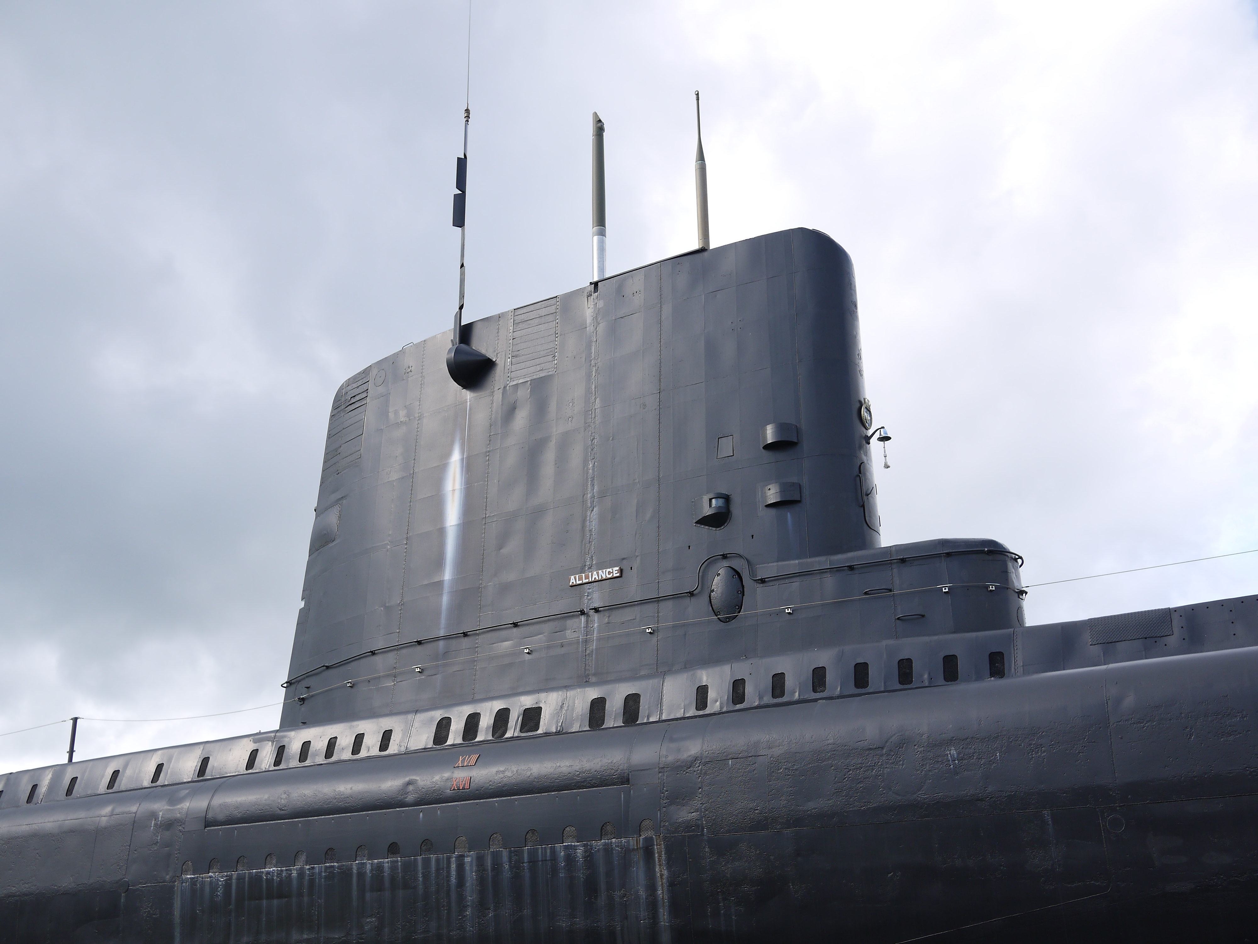 HMS Alliance's forward fin